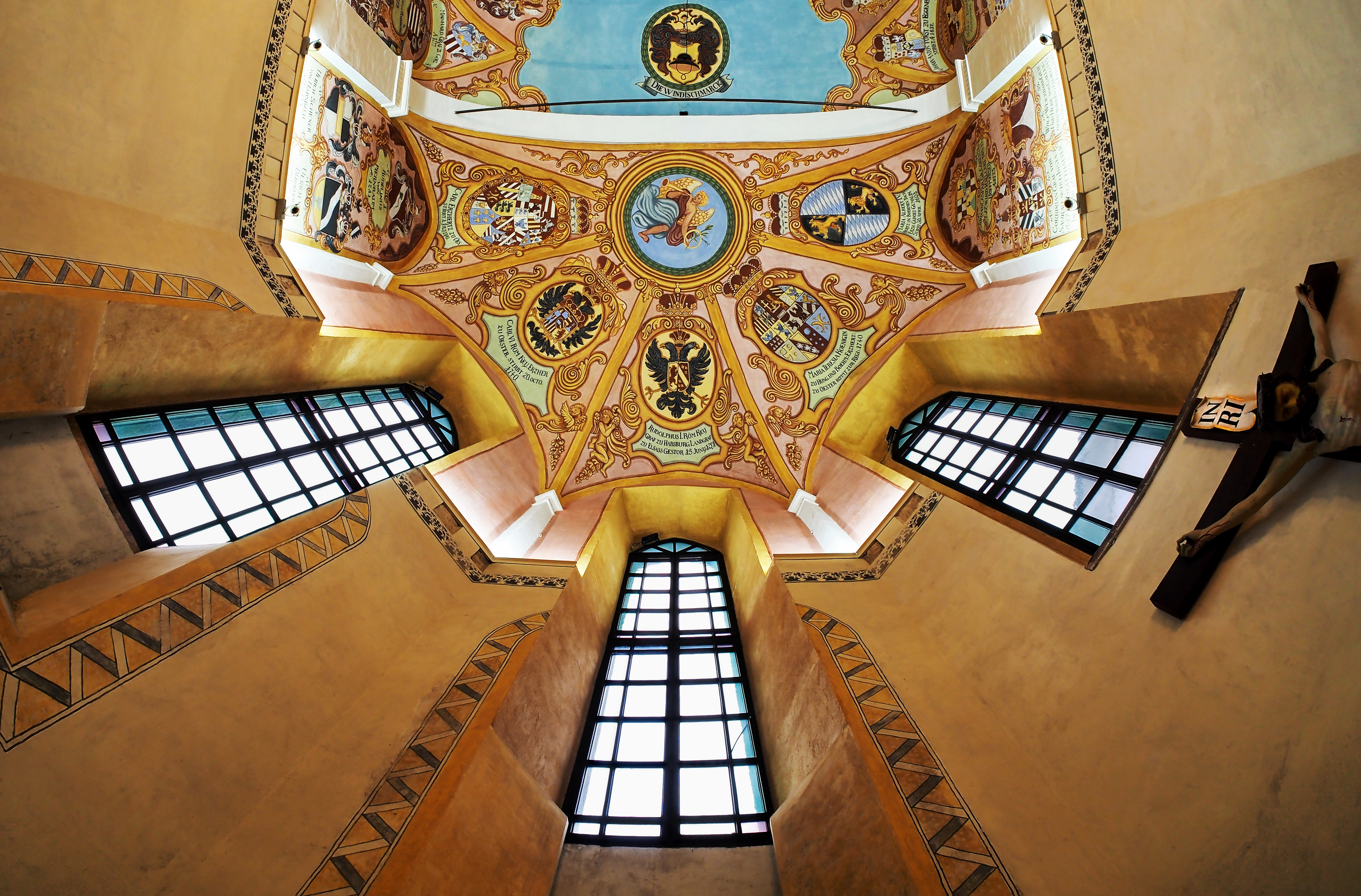 Altar ceiling of St. George's Chapel at Ljubljana Castle. Slovenia. Built in 1489. in gothic style. Rebulit in Baroque style in 1727. Gothic windows were left from earlier period. Coats-of-arms of the provincial governors are part of ceiling fresco. This photograph was taken with a Olympus E-P5.